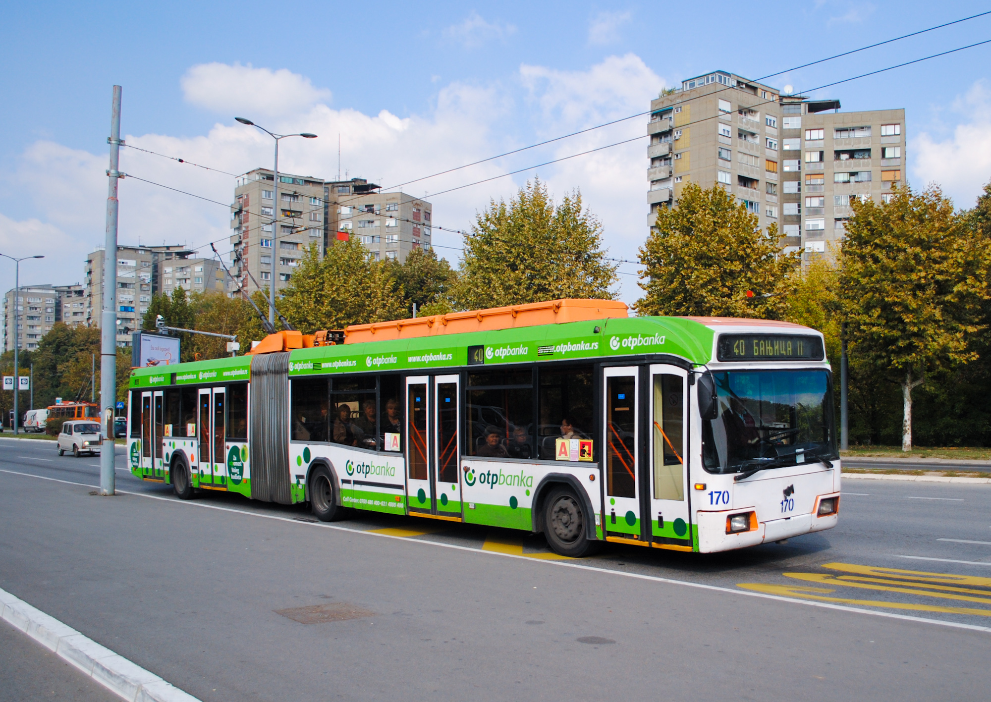 A Belkommunmash AKSM-33304 (now known as a BKM-33304) trolleybus in Belgrade.